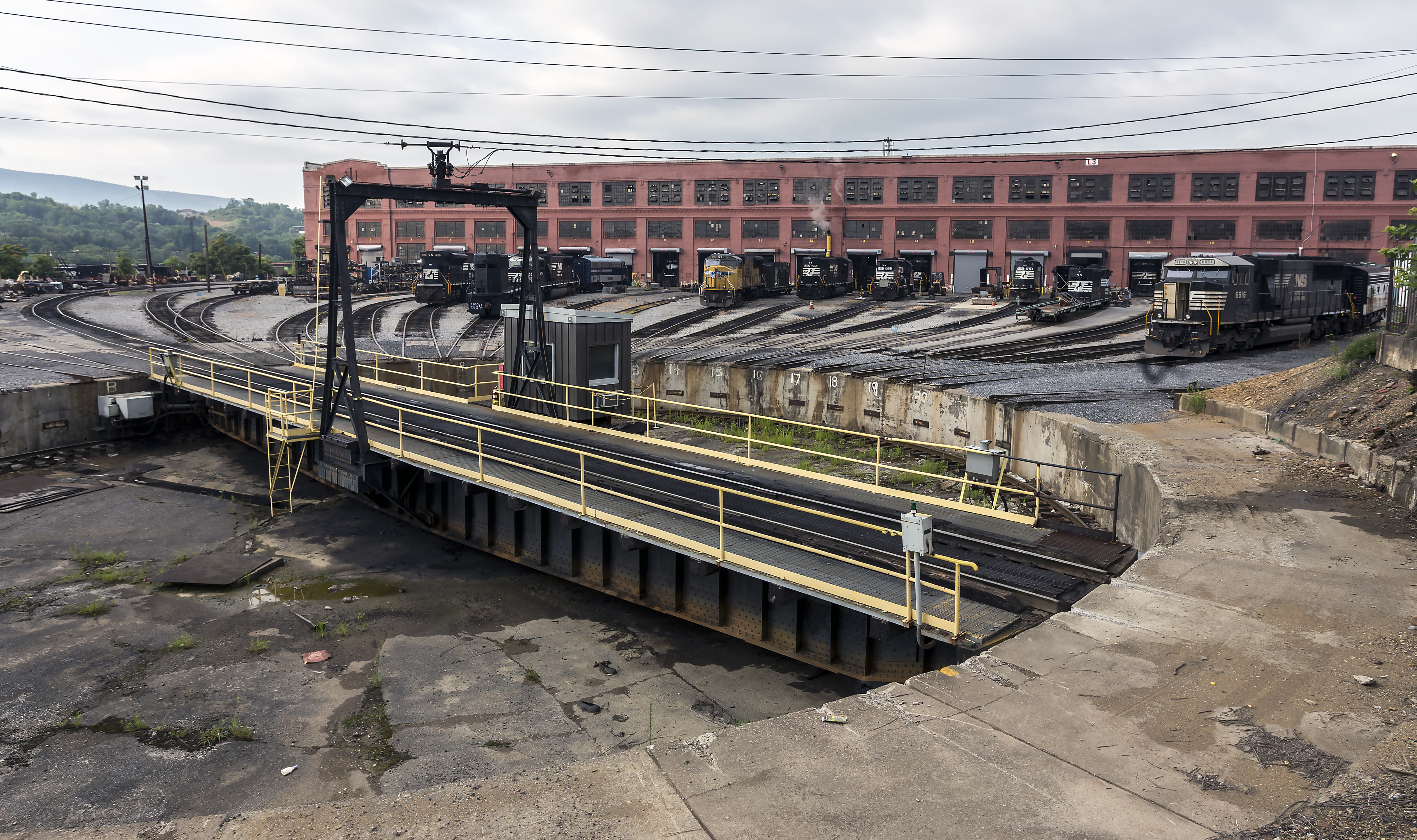 The turntable or transfer table at the Norfolk Southern Altoona Works, Altoona, Pennsylvania, USA